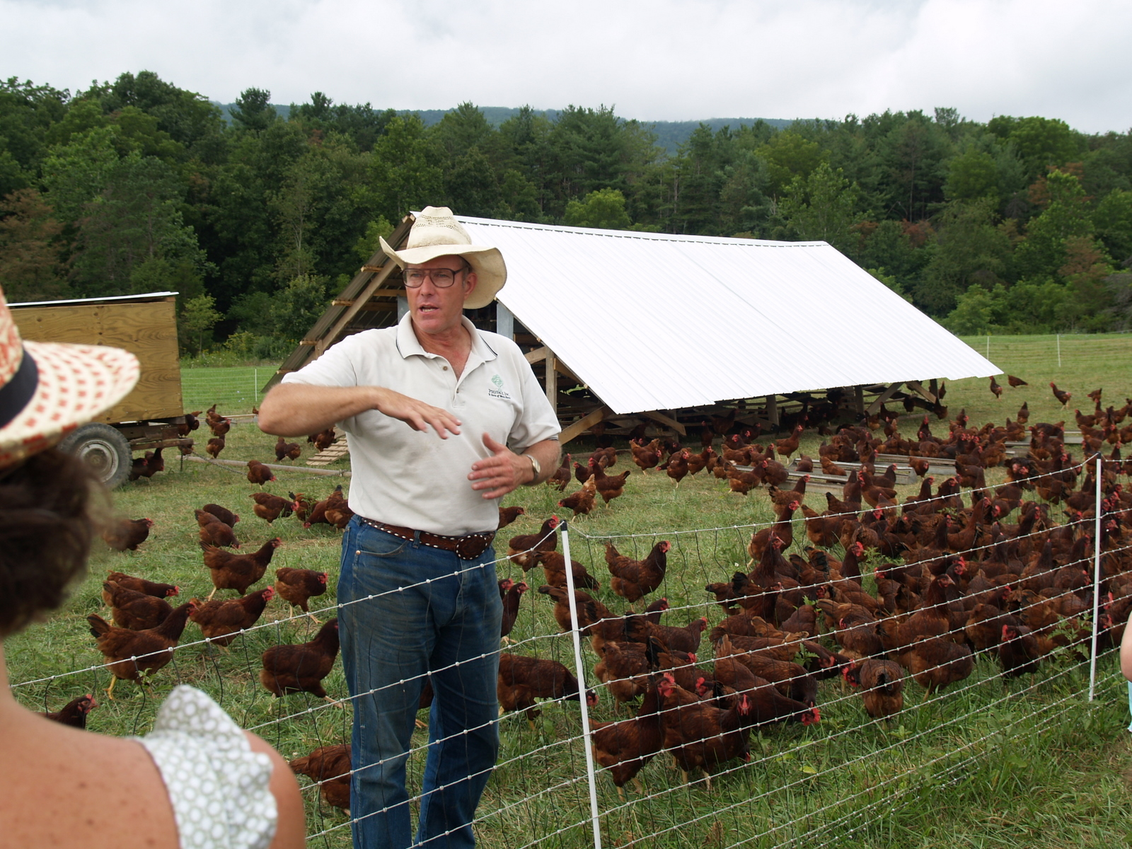 Joel Salatin gives a tour of Polyface Farm. Here he stands inside electric netting surrounding a flock of laying hens and their portable coop, dubbed an Eggmobile.